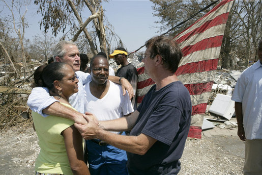 source: President George W. Bush embraces victims of Hurricane Katrina Friday, Sept. 2, 2005, during his tour of the Biloxi, Mississippi, area. " The President told residents that he had come down to look at the damage first hand and to tell the "good people of this part of the world that the federal government is going to help." White House photo by Eric Draper.